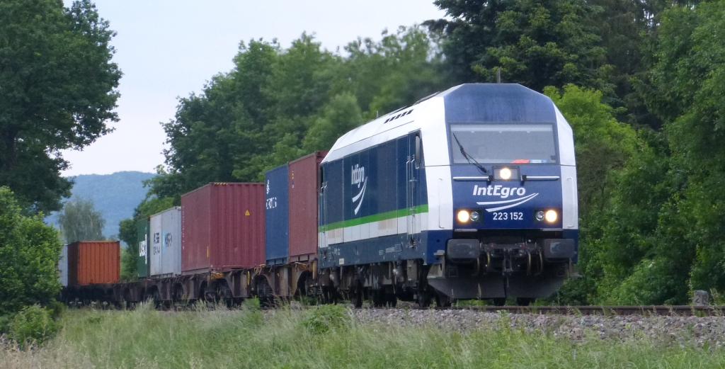 IntEgro locomotive 223 152 with containertrain near Hersbruck, Germany